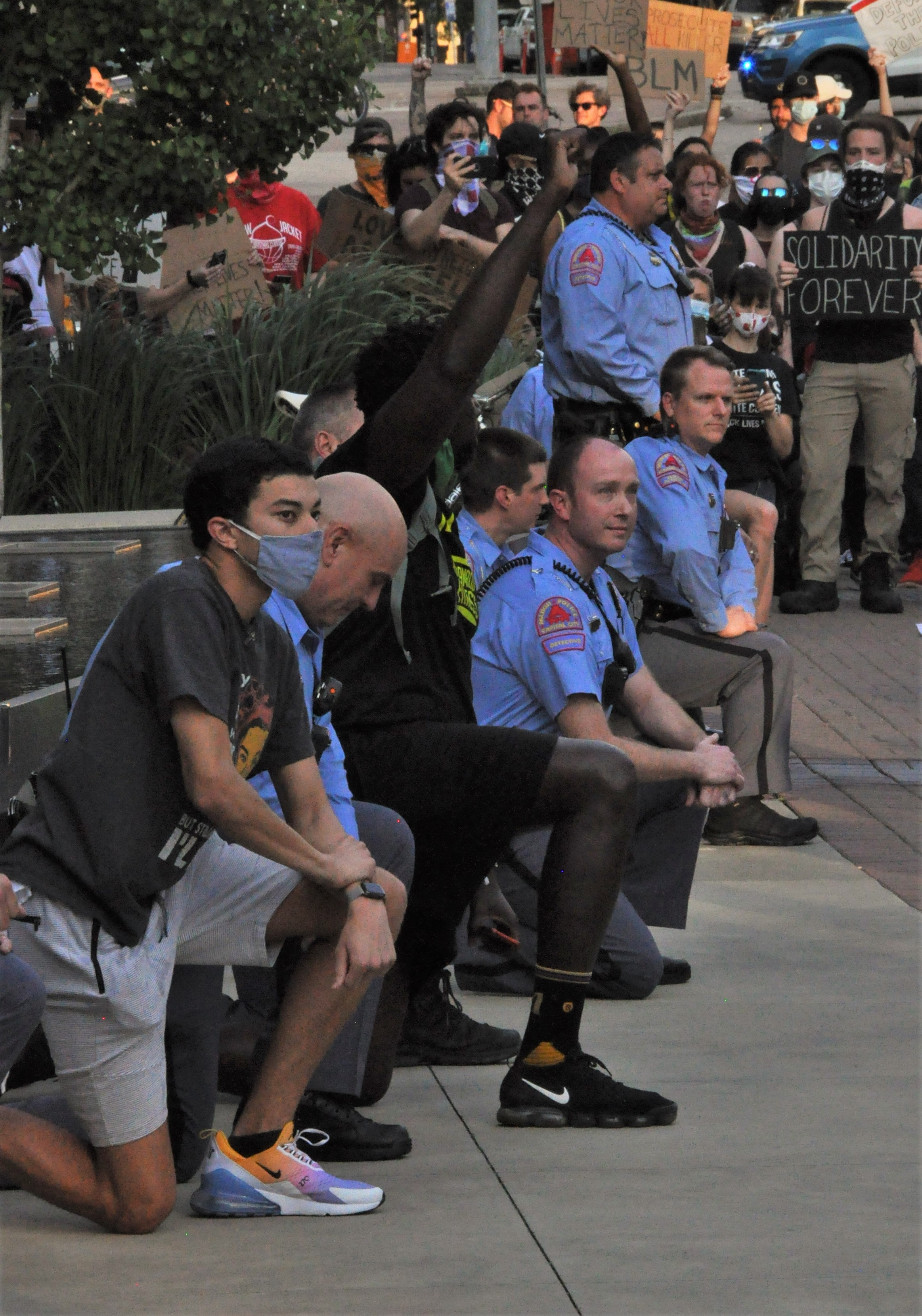 Raleigh Protests 6/2/2020